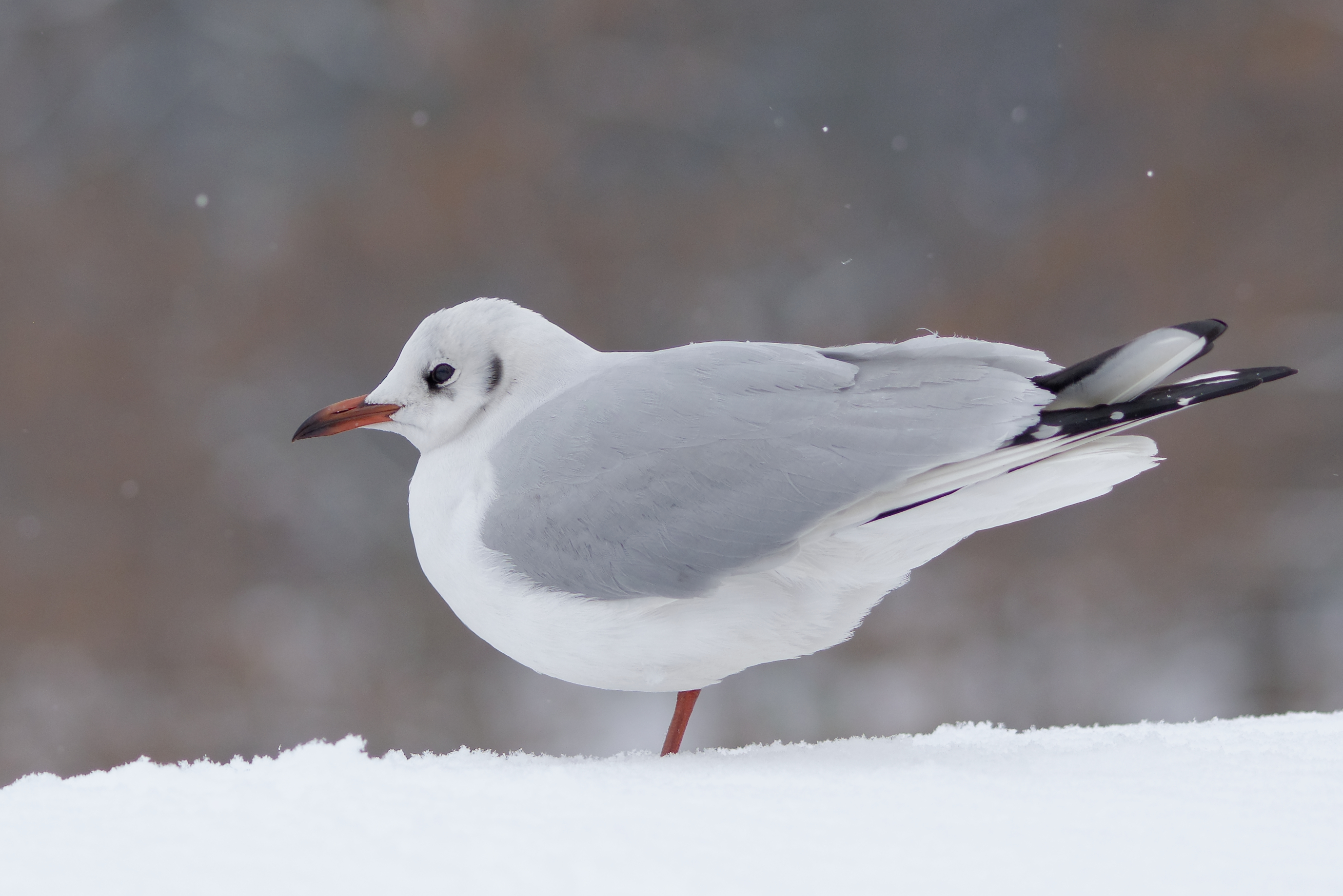 Black-headed gull (Chroicocephalus ridibundus) in the snow on a wall of the Palais de Chaillot.